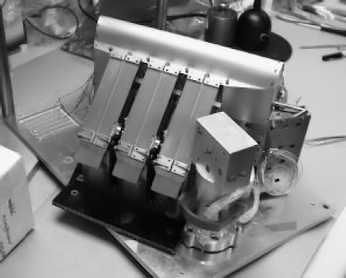 Photo of the Thermal and Evolved Gas Analyzer (TEGA) incorporated on the Mars Polar Lander.